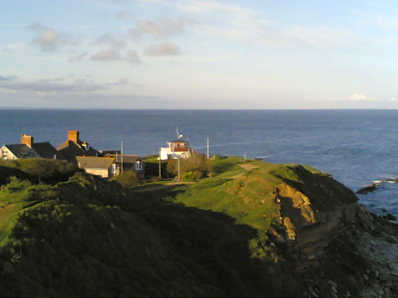 Copyright (c) 2006, Oliver Low. Free to use under creative commons attribution licence. Peveril Point, Swanage, Dorset. At the left of the horizon is Bournemouth, at the right is the Isle of Wight.